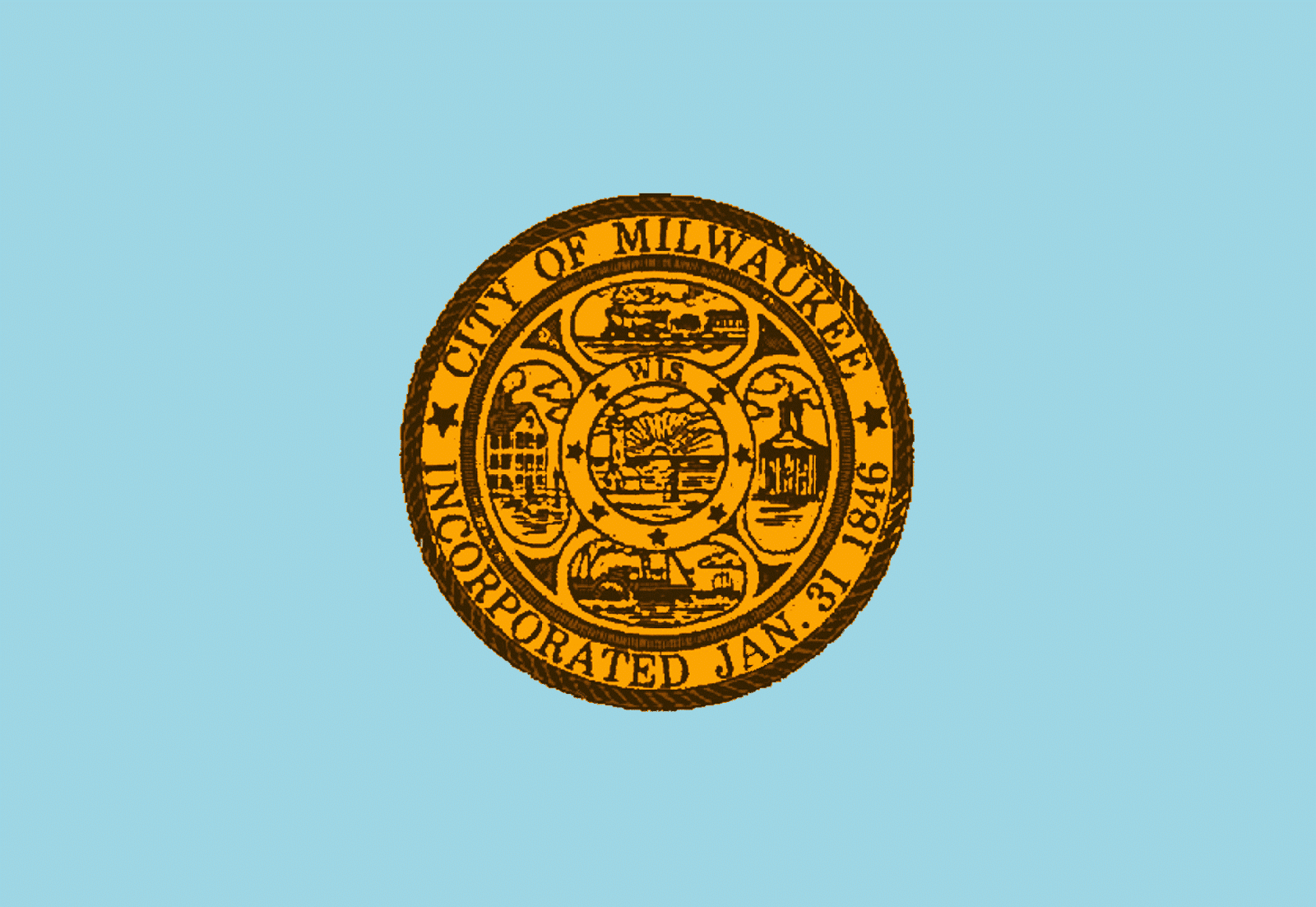 This is the first official flag of Milwaukee, adopted by the city's Common Council in 1927. It was carried by the Milwaukee Police Department in parades, but never widely used beyond that.